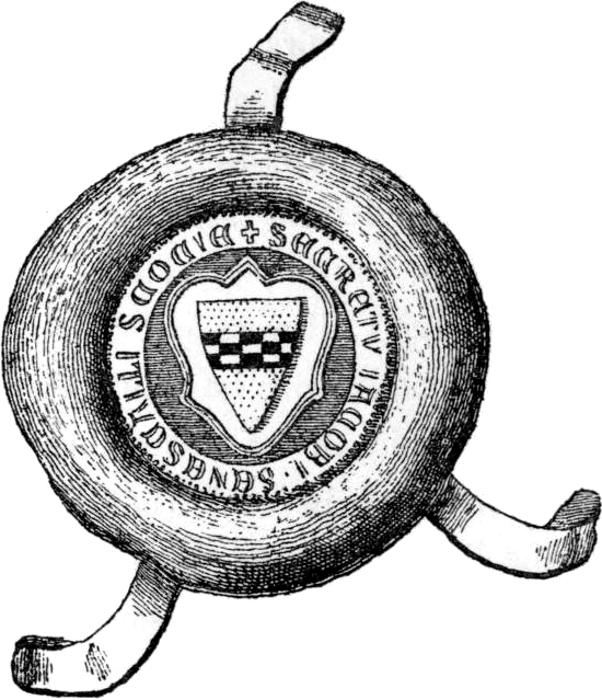 The seal of James Stewart, Steward of Scotland (died 1309).